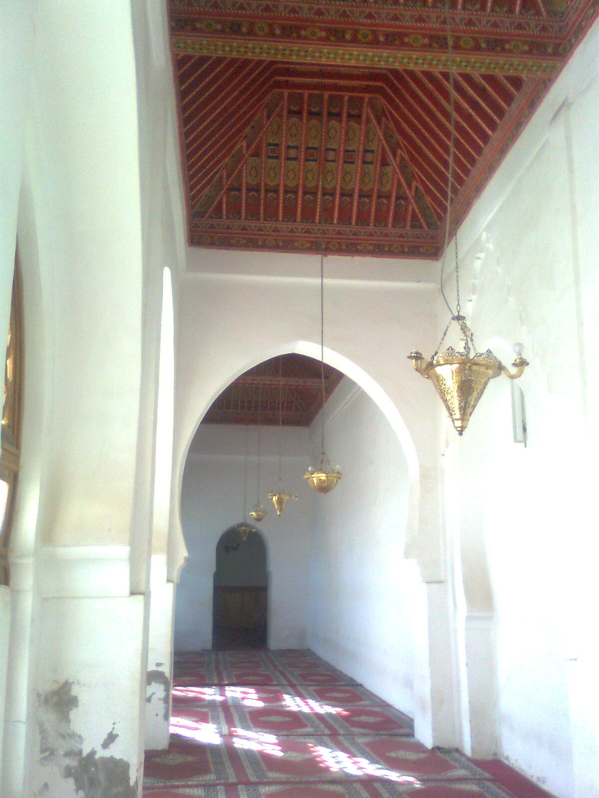 A view from the insight of the big Mosque in Taroudannt, Morocco, before it be burned